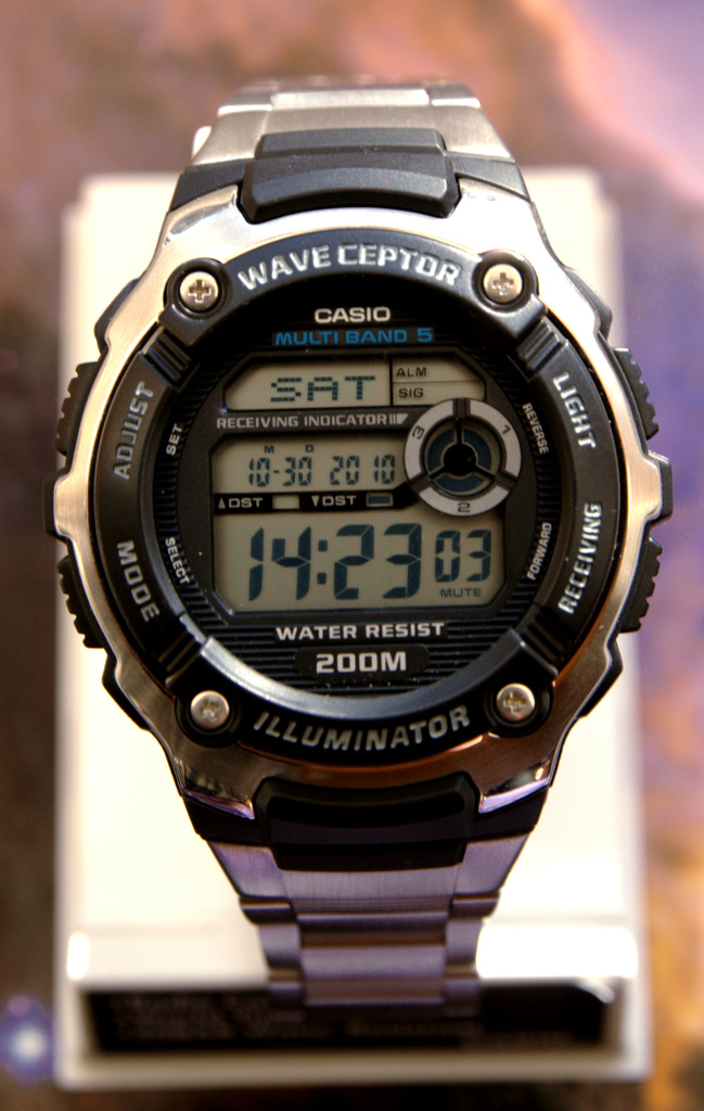 Casio Waveceptor WV-200DE, radio-controlled clock.